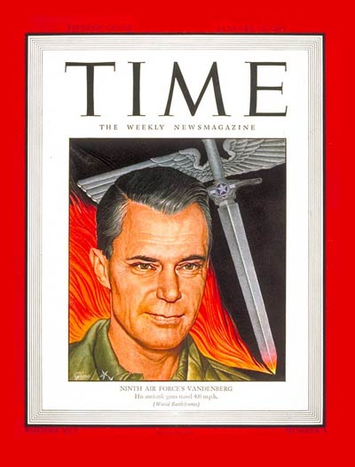 U.S. Air Force Gen. Hoyt Vandenberg, featured on the January 15, 1945, cover of Time magazine (Vol. XLV No. 3), while he was commanding general of 9th Air Force in World War II from August 1944 to V-E Day.